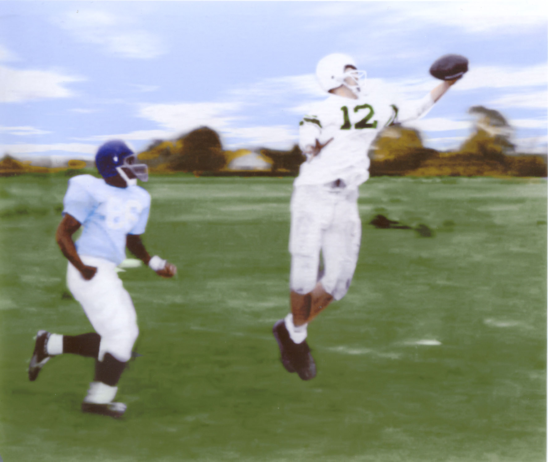 James McKinstry, playing for Farmingdale College, catching a touchdown against Hofstra University